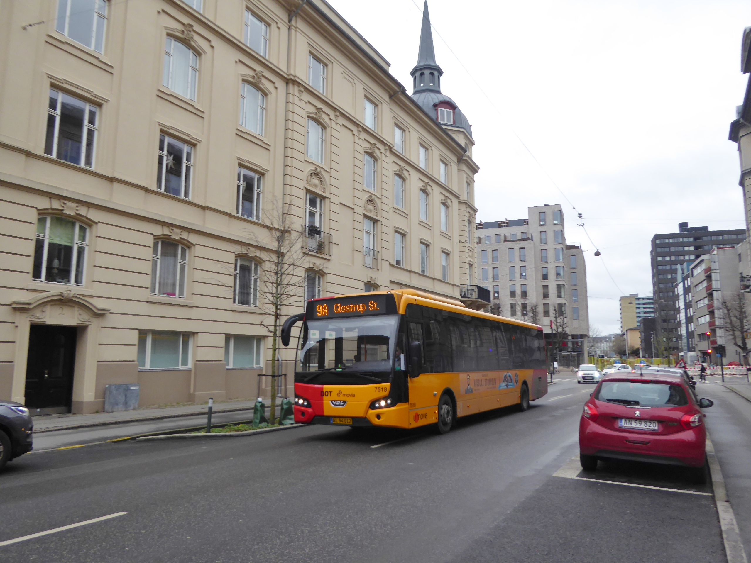 Movia bus line 9A on Madvigs Allé in Frederiksberg in Copenhagen. The street has been served by buses since line 9A got a new route at 13 October 2019. The don't stop on the street however but on Gammel Kongevej and Frederiksberg Allé at the end of it.